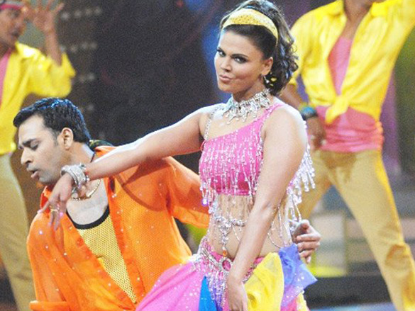 Item dancer Rakhi Sawant performing at Nach Baliye 3 in Madhuri Dixit's famous getup. Dixit had performed the song "Ek Do Teen" from film Teezab (1988)in this getup.